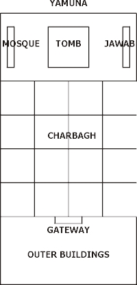 Schematic plan of Taj complex As you can see, this building is bulit in perfect symmetry.